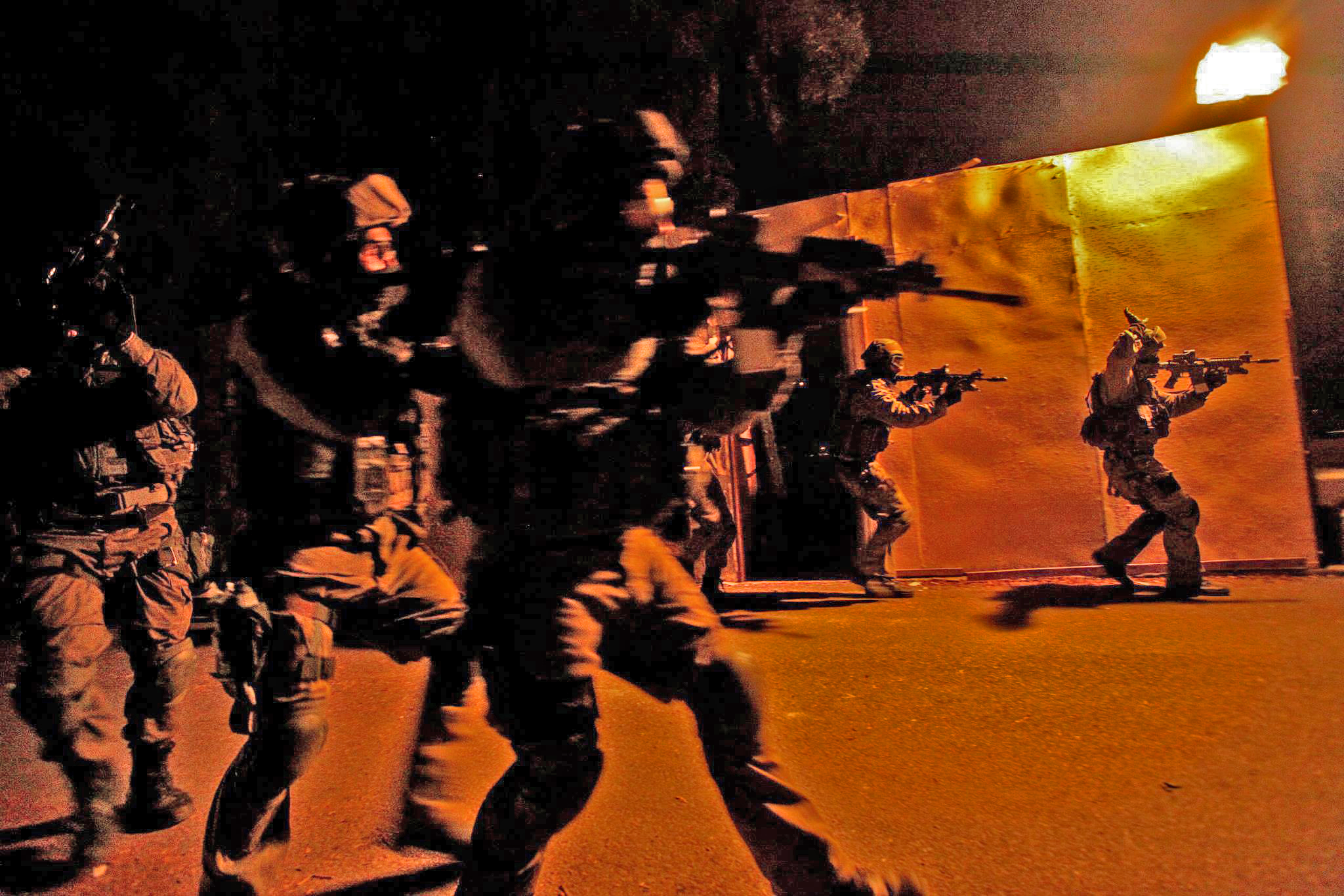 YAMAM - Israeli Counter-Terrorism unit - in a raid on Palestinian terrorists in Ramallah, March 2017